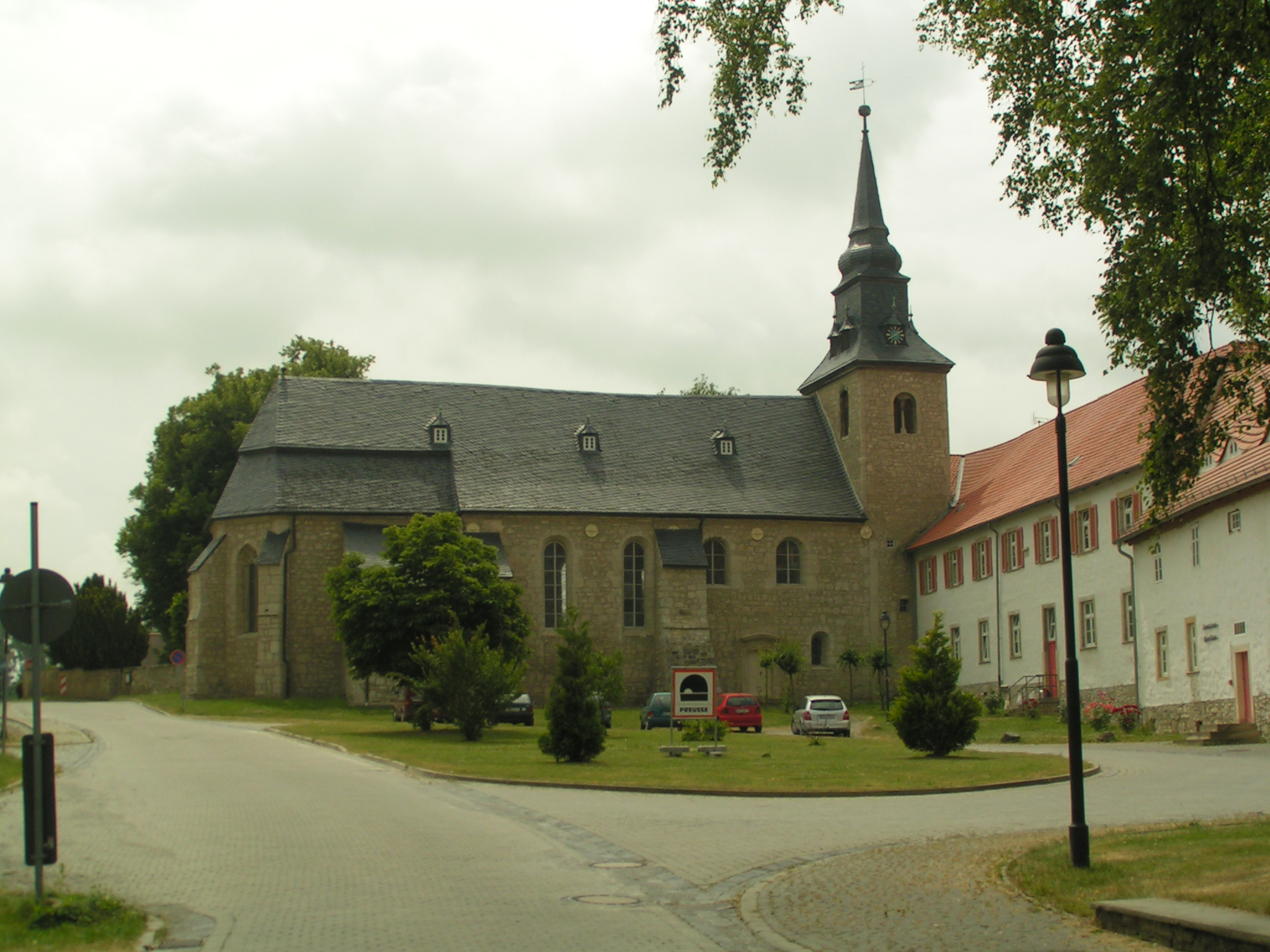 catholic church of Badersleben, Saxony-Anhalt